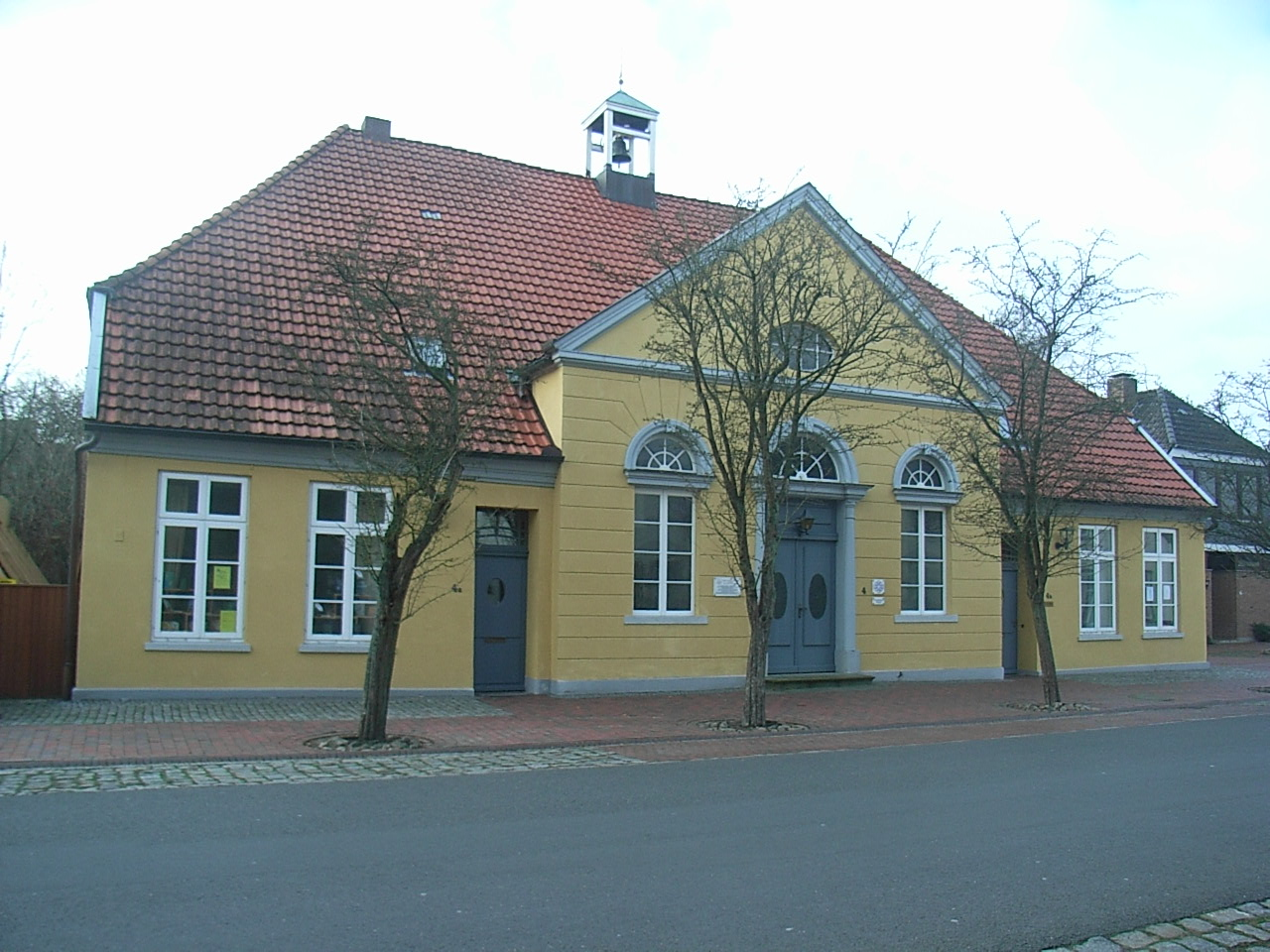 Martins Church in Ovelgönne, Lower Saxony, Germany